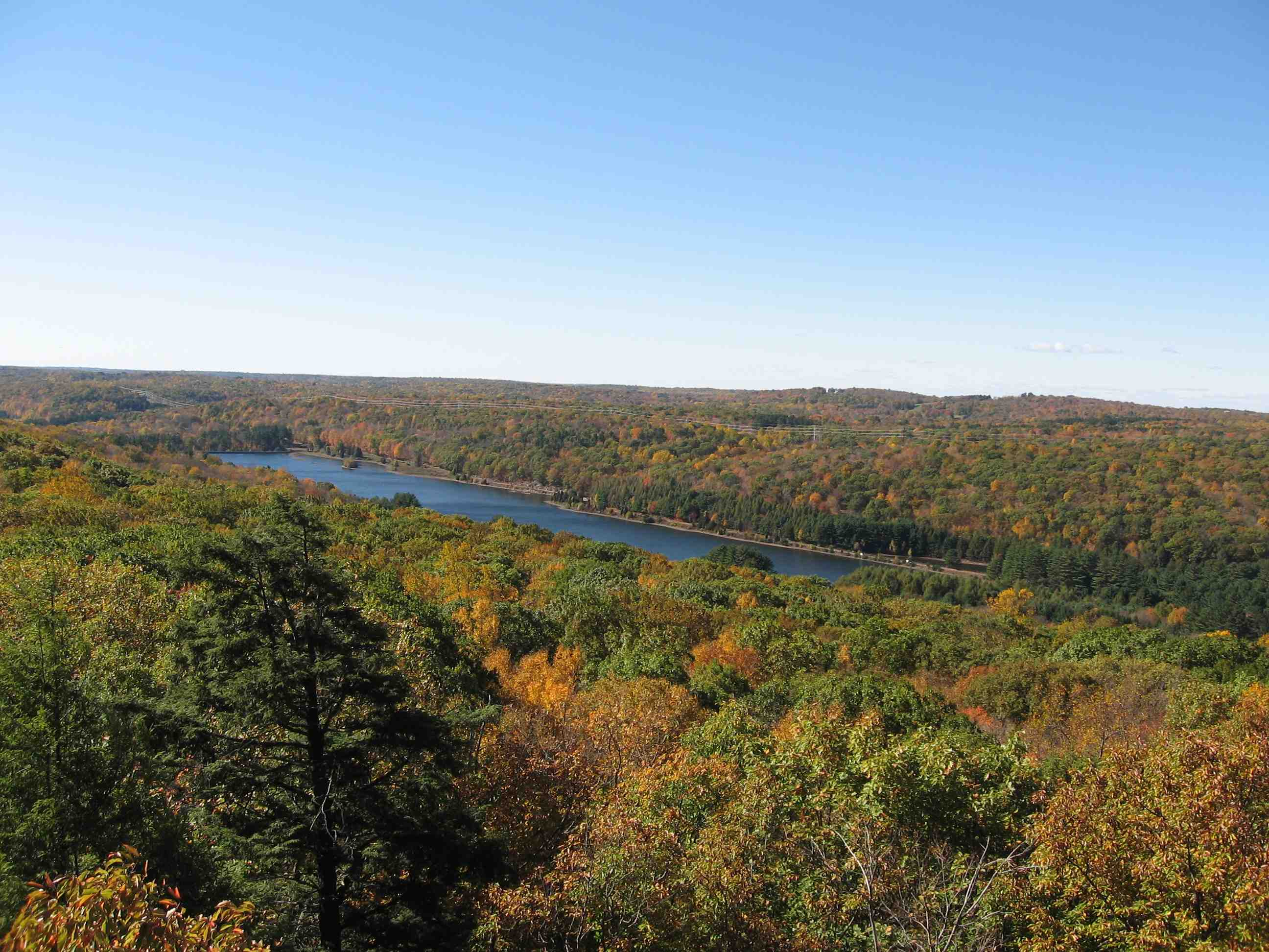 This is a picture of Lake Watrous in Woodbridge and Bethany, Conn., taken from an overlook on the Blue-Blazed Regicides Trail, about 1 mile south of its northern junction with the Quinnipiac Trail.